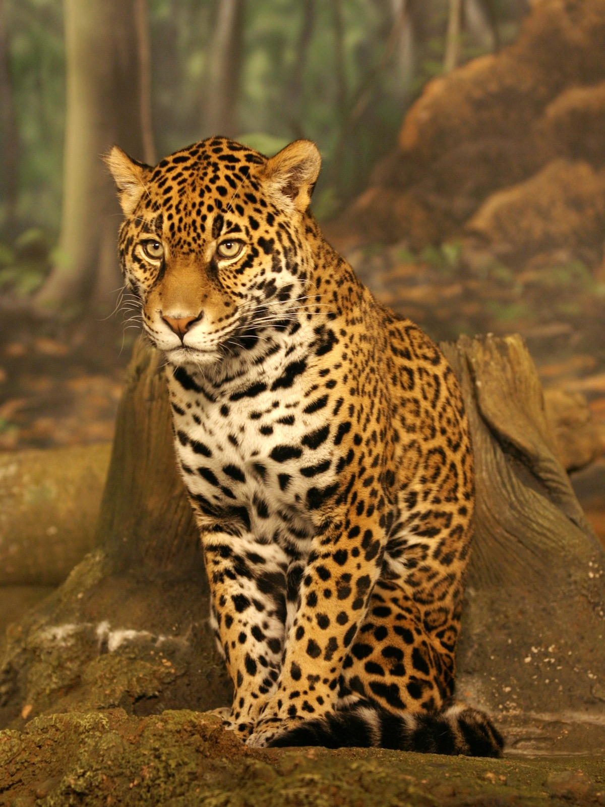 Image:Jaguar sitting.jpg is cropped for a 3:4 aspect ratio and for the jaguar occupying a larger area in the picture. A little tonal and contrast adjustment is also done.